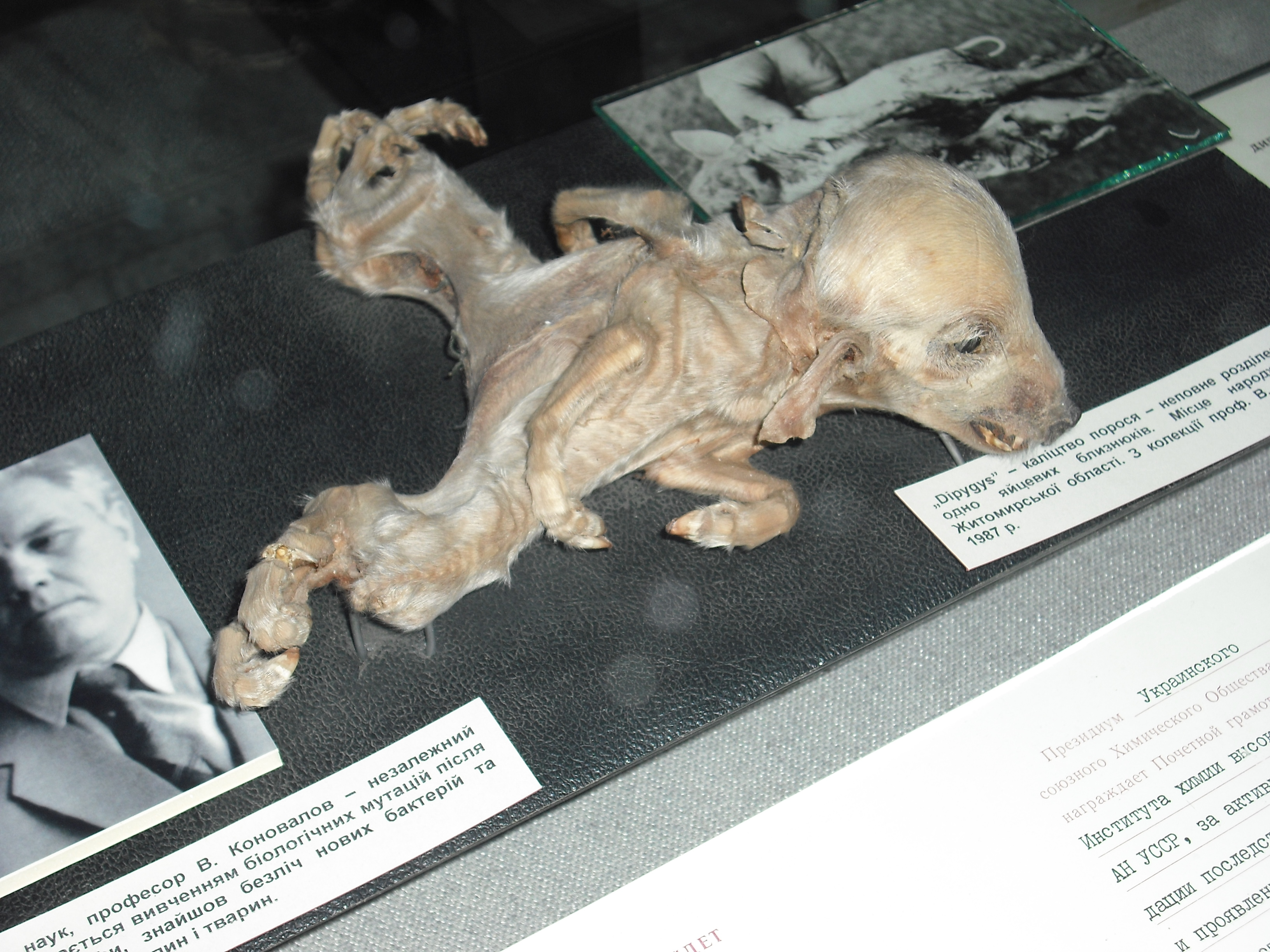 Piglet with dipygus - Kiev - Ukrainian National Chernobyl Museum. "Коліцво порося" visible in the display's caption translates as "mutated piglet".